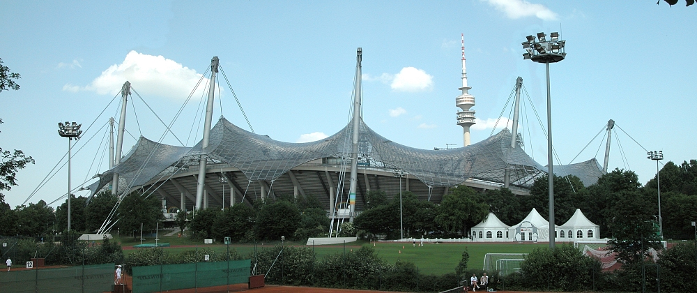 Olympic Stadium (Munich), Germany